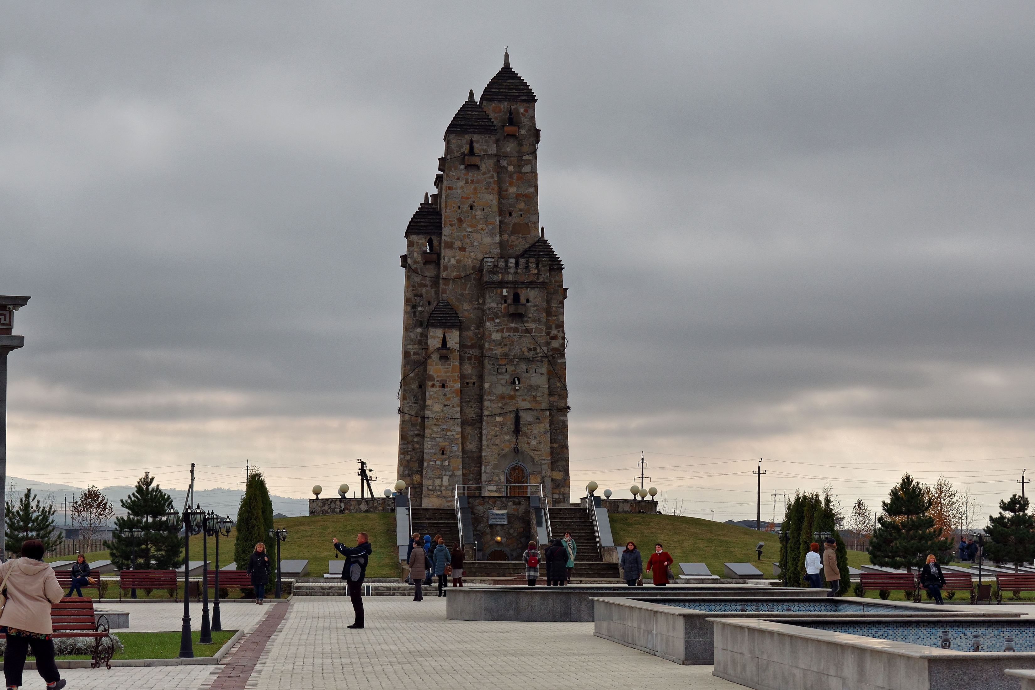 Nazran. Memorial of memory and glory